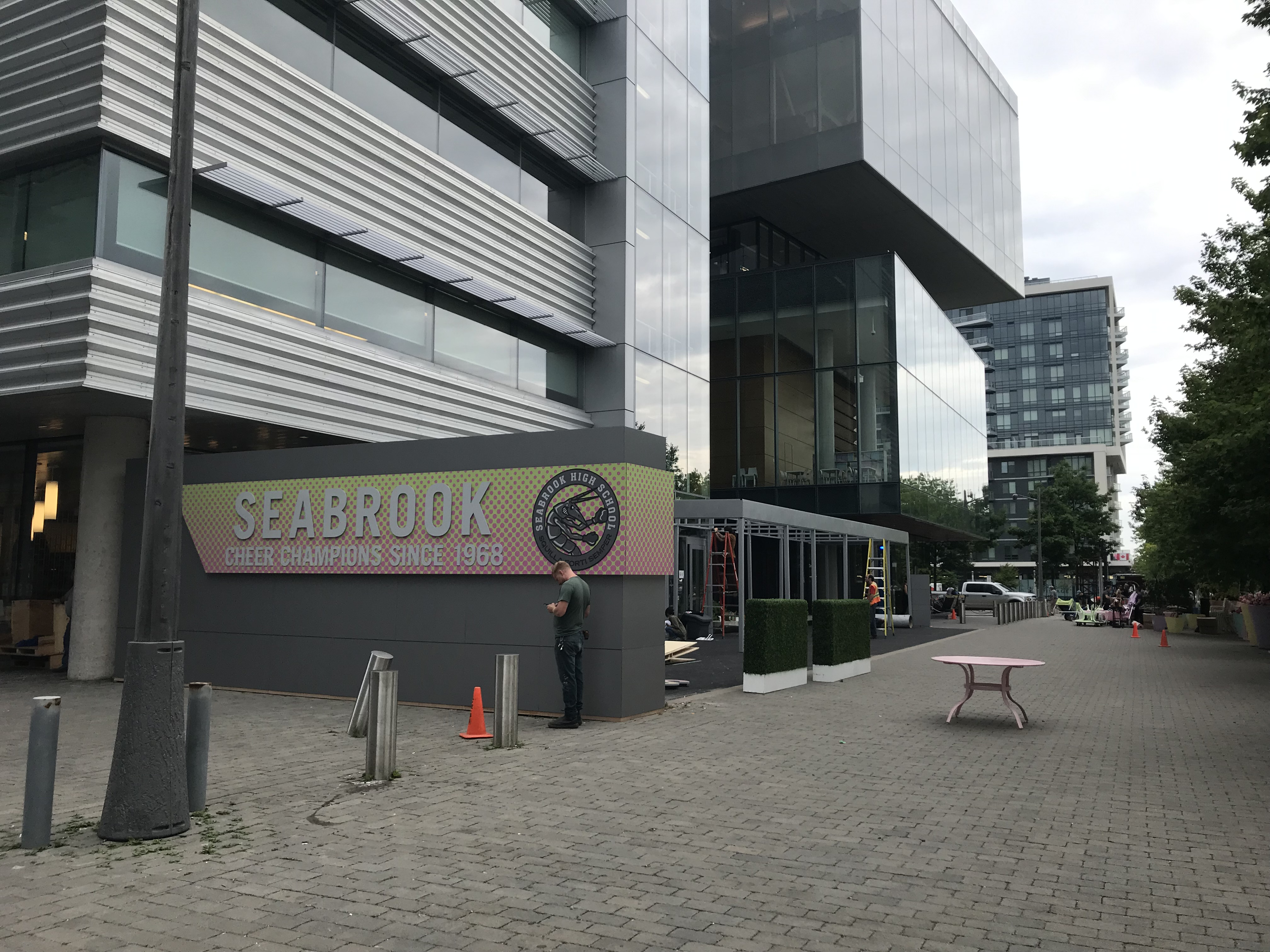 The set of Seabrook High School, used in the Disney Z-O-M-B-I-E-S TV series, at the George Brown College waterfront campus.